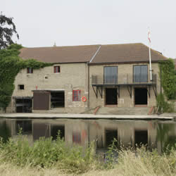 Current view of St Ives rowing club taken from the far bank in Hemmingford Meadow.